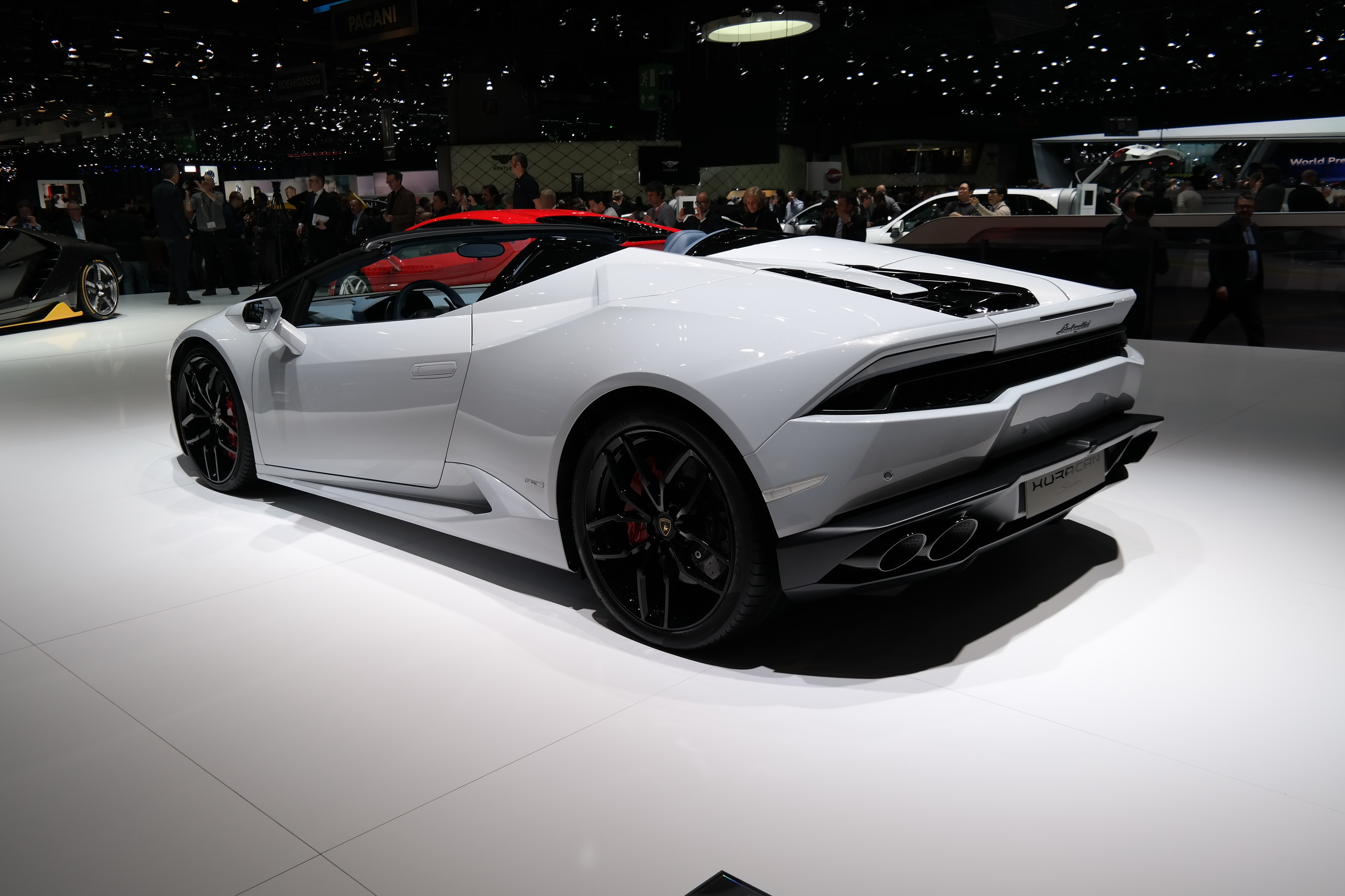 Geneva Motor Show 2016 (photo taken on the first press day)